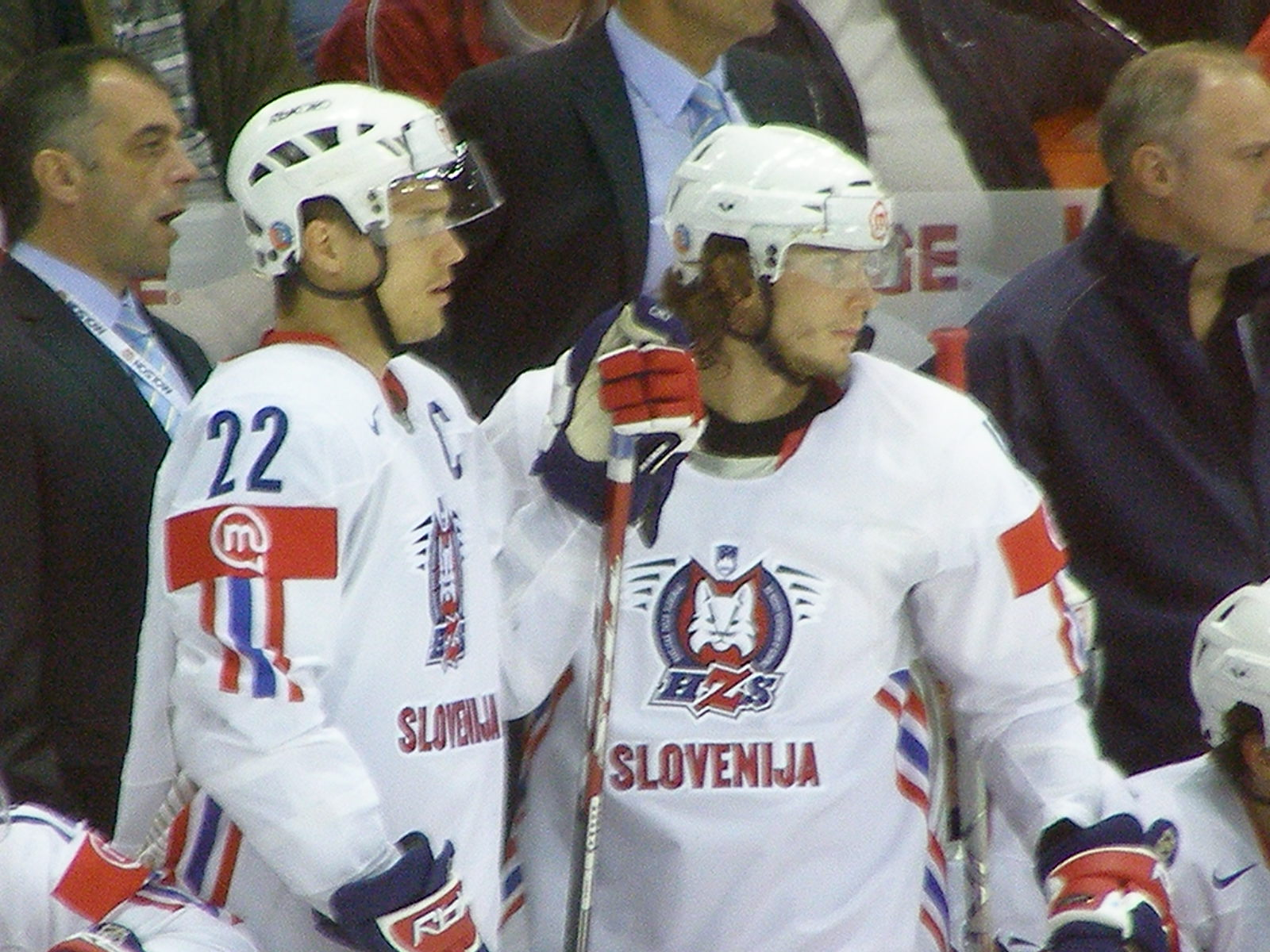 Slovenia VS USA (IIHF World Hockey Championship in Halifax NS, May 4 2008)